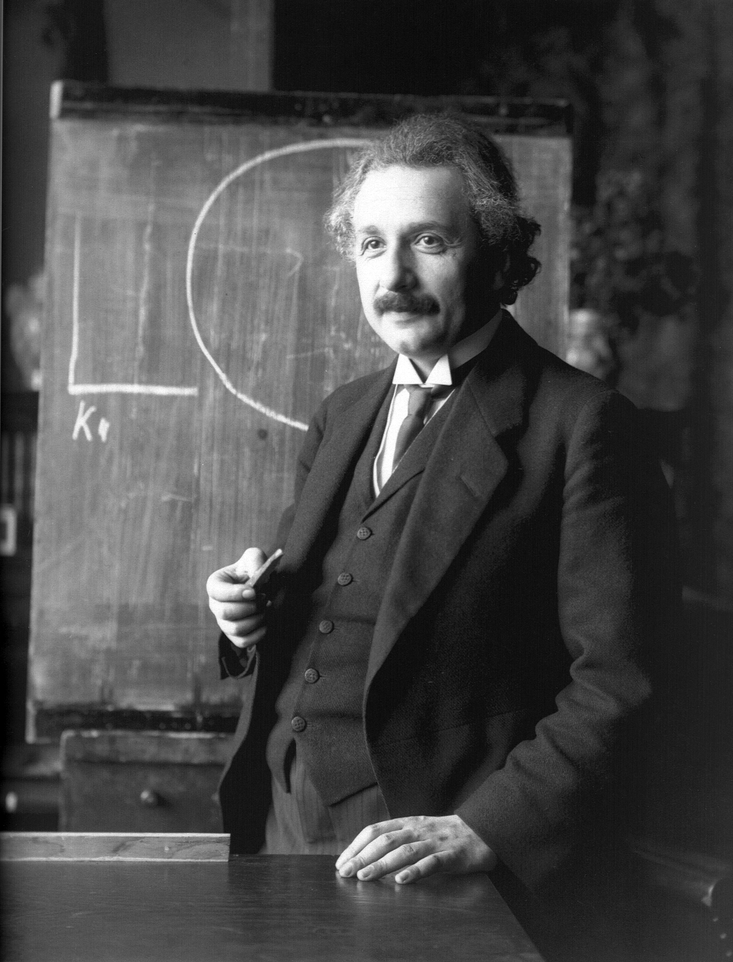 Albert Einstein during a lecture in Vienna in 1921.